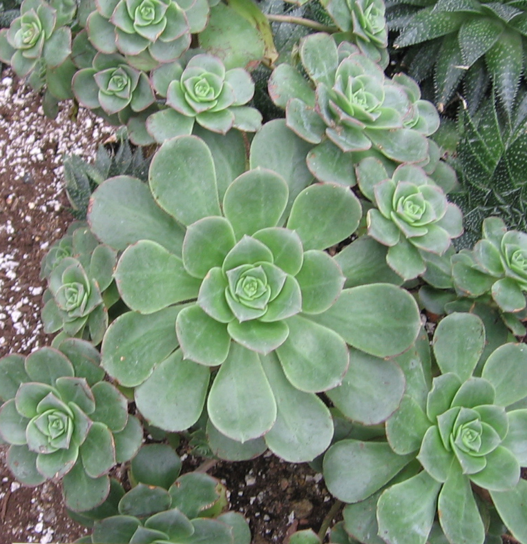 Aeonium haworthii, Jardin botanique de Montréal